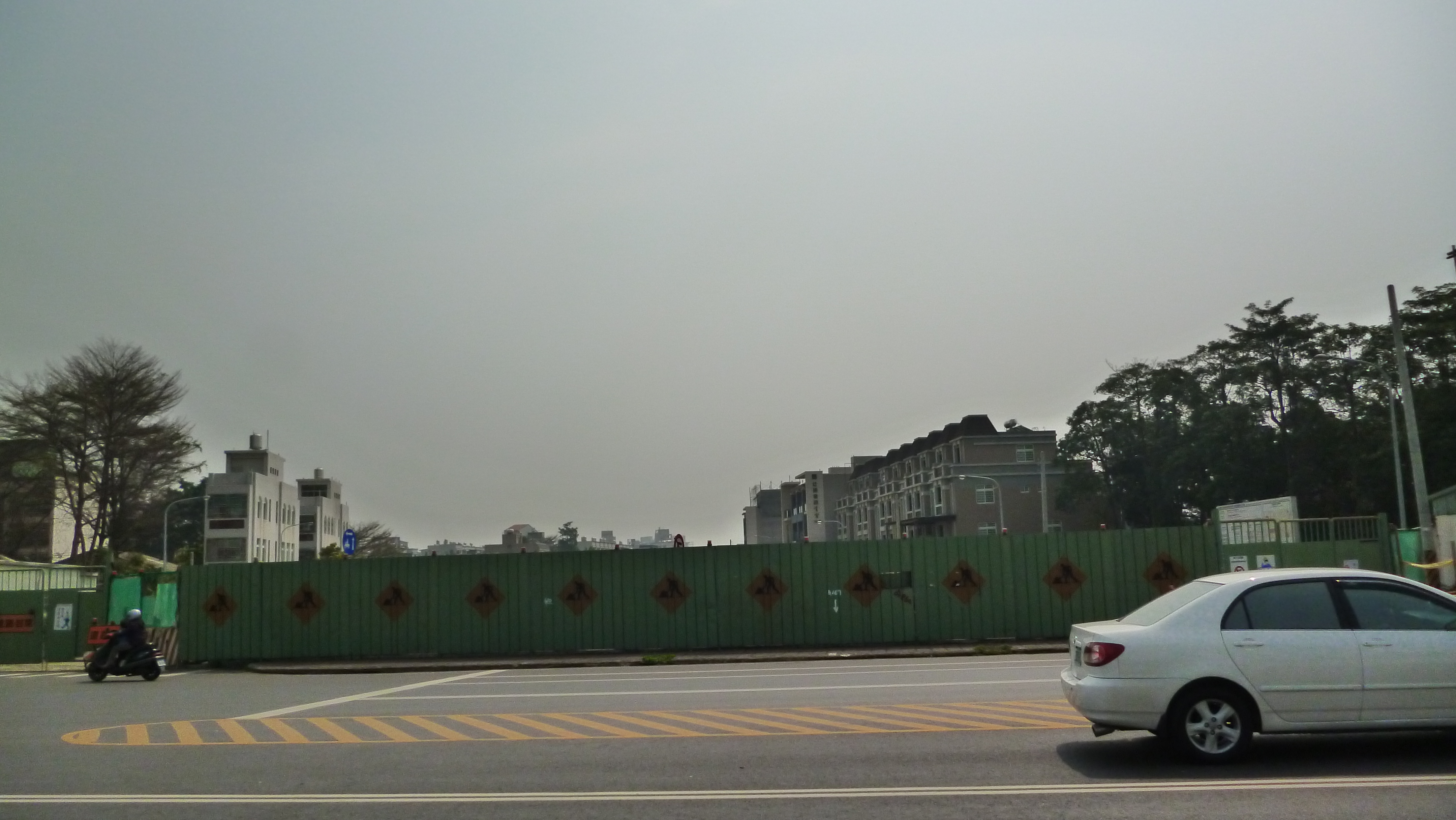 Gong Dao Yi-04